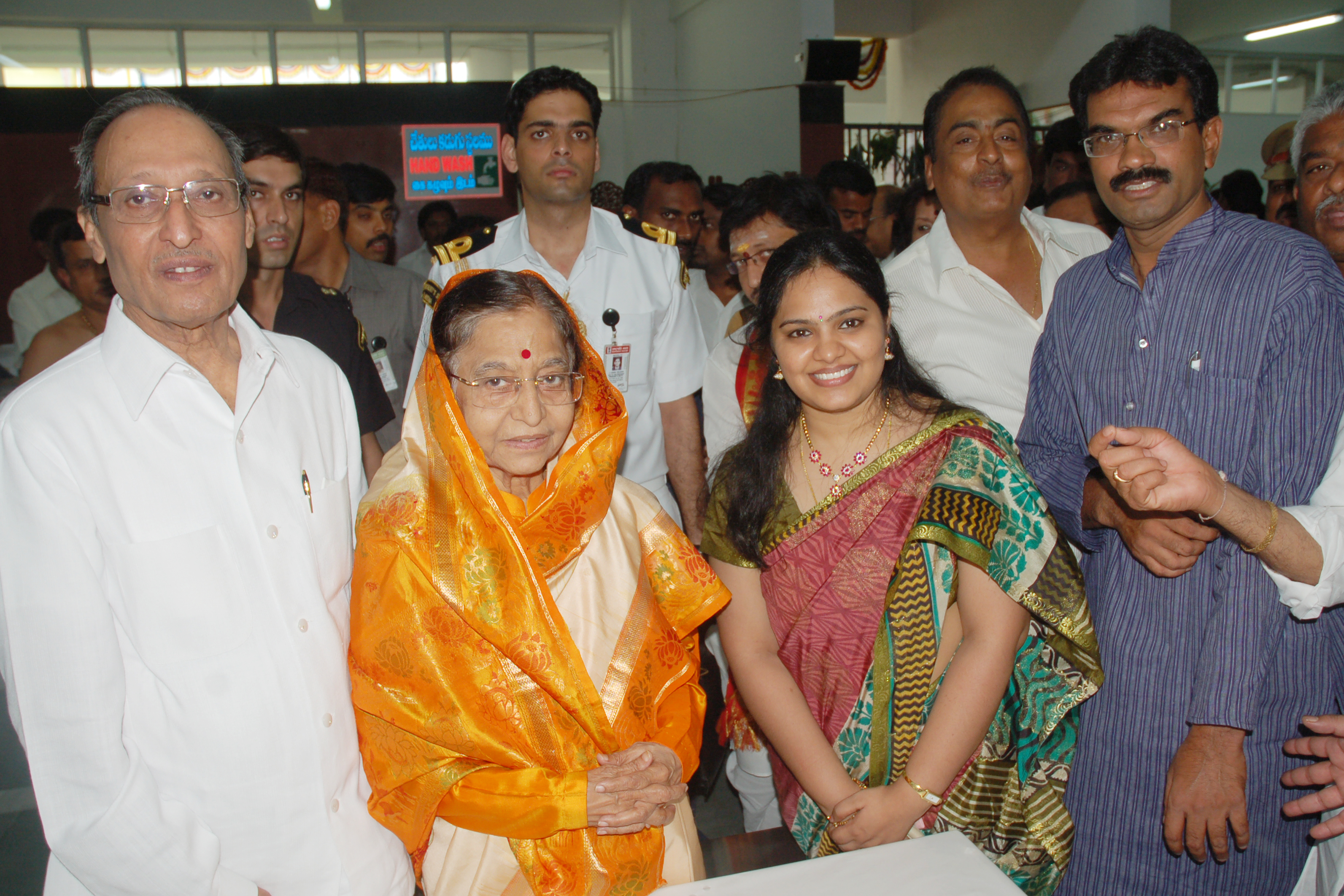 Gopika Poornima with Pratibha Patil